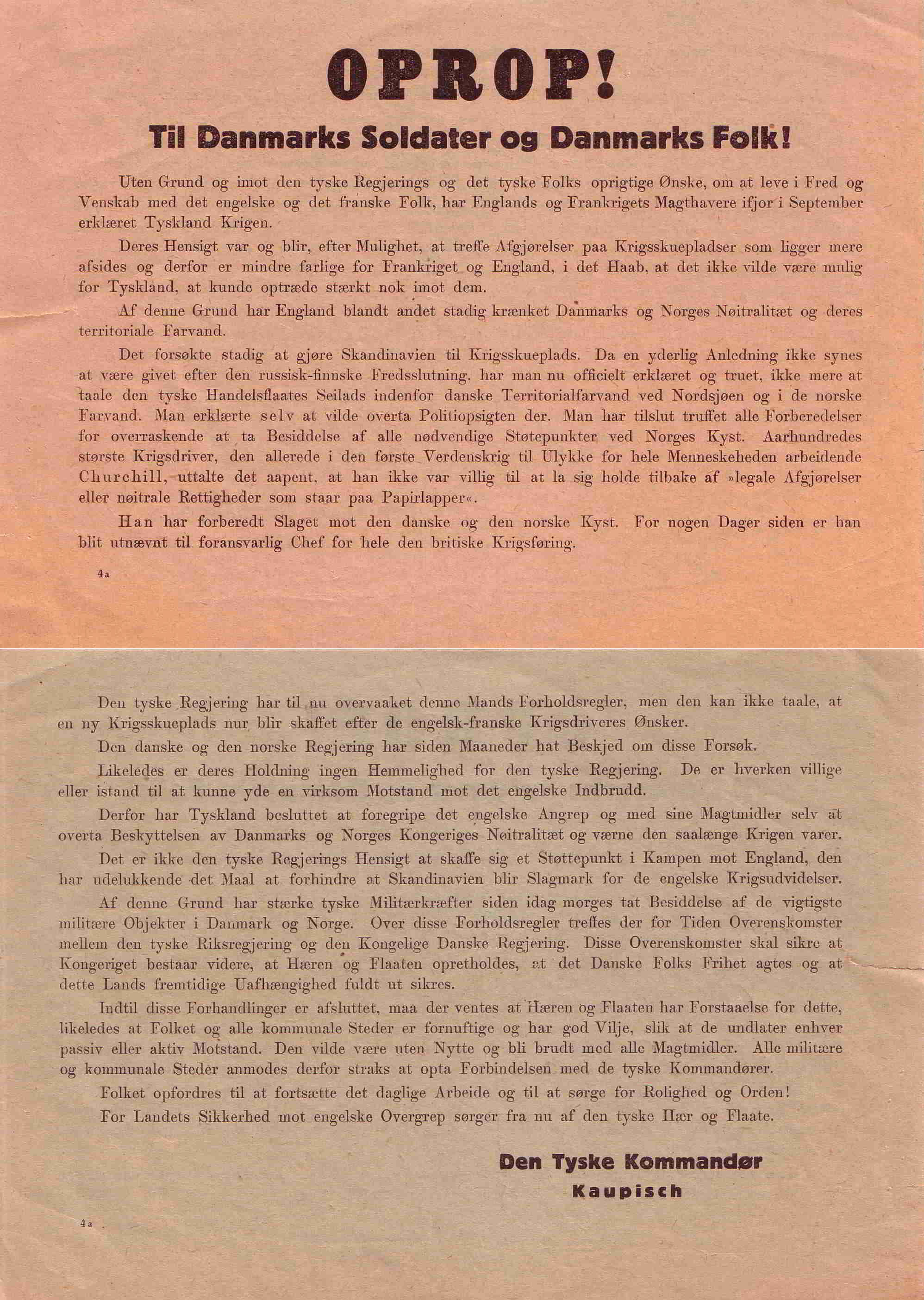 Propaganda leaflets dropped from German military aircraft over Denmark on the morning of the Nazi occupation of Denmark, 9 April 1940. The leaflets claim - in a garbled mix of Danish, Norwegian and numerous spelling errors - that the German army has occupied Denmark to "protect it" against the United Kingdom.